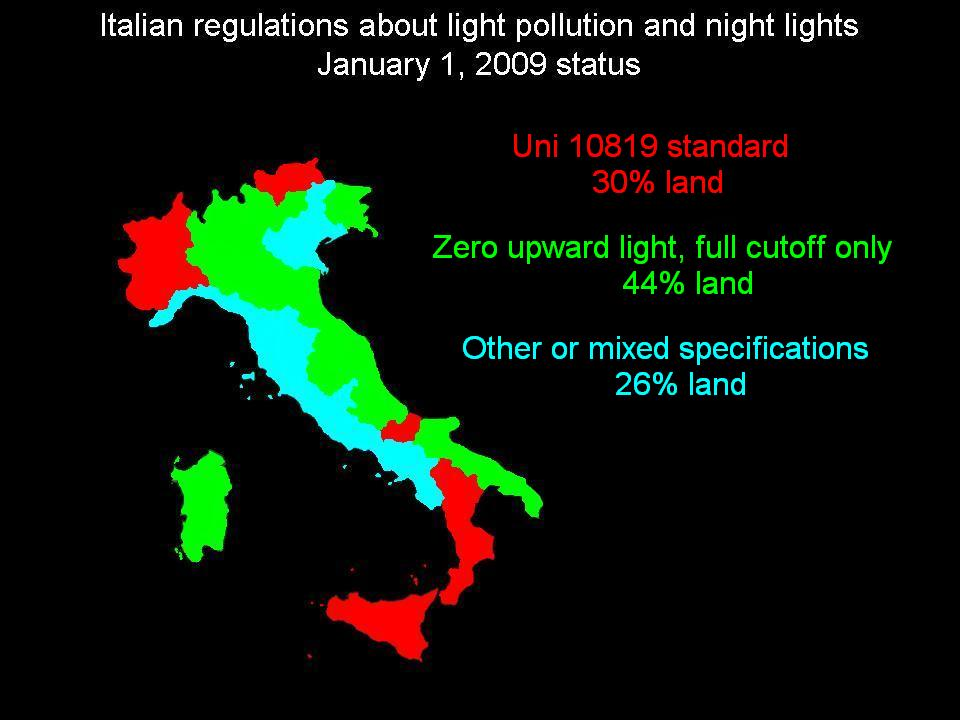 Italian bills about light pollution and lighting energy saving, January 1 2009 status. As you can see the most part of Italian land requires zero upward light for new luminaries, that implies nearly total usage of full cutoff sources. On the contrary, Uni 10819 standard allows lights to be directed to the sky but this standard have been superseded by tougher requirements since 2001 in all regional/local bills.